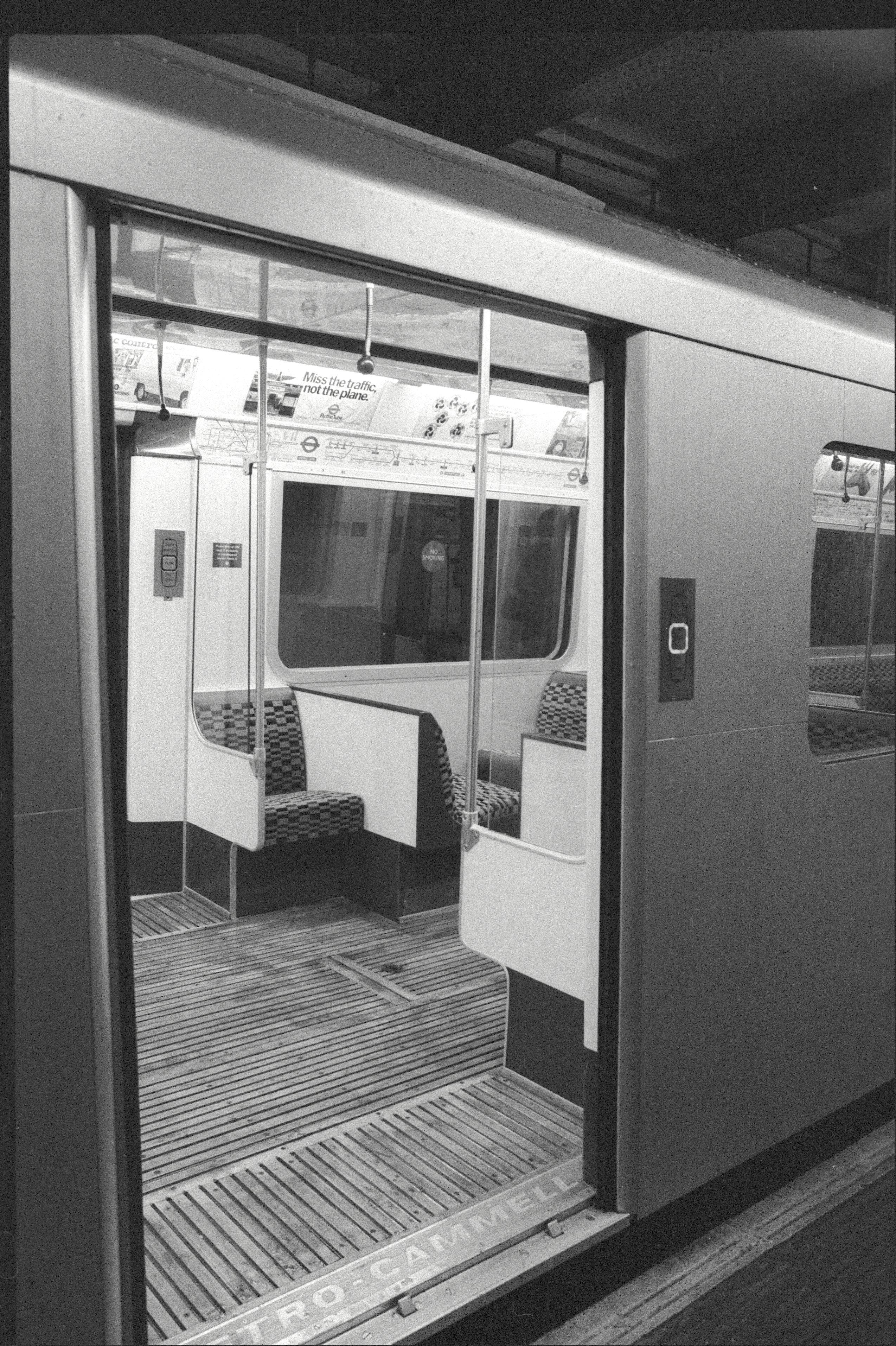 D78 stock as built. These were taken on the press run of the prototype.